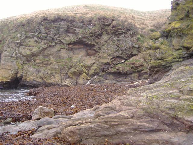 Geological fault at Niarbyl. The narrow white diagonal line near centre of picture is the only remaining visible representation of the Iapetus Ocean, which once separated the Gondwana and Laurentia continents, respectively now the continents of Africa and North America. It is possible to stand with a foot in each of these ancient continents!